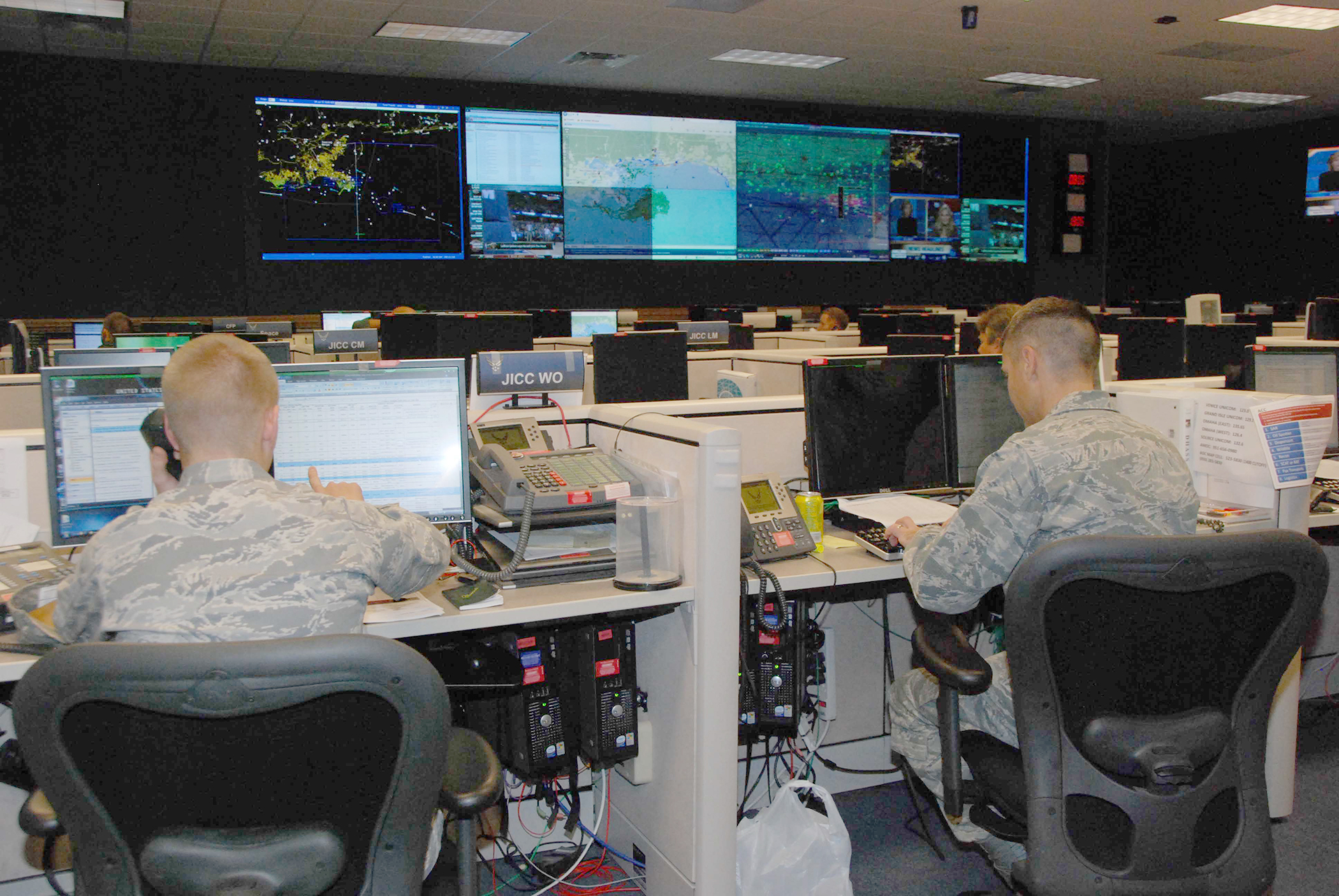 Aviation Coordination Command airspace managers coordinate airspace activity on the ACC Operations floor July 9, 2010, at the 601st Air & Space Operations Center at Tyndall AFB, Florida. The ACC was created to provide support to the Coast Guard during Deepwater Horizon Response air operations.